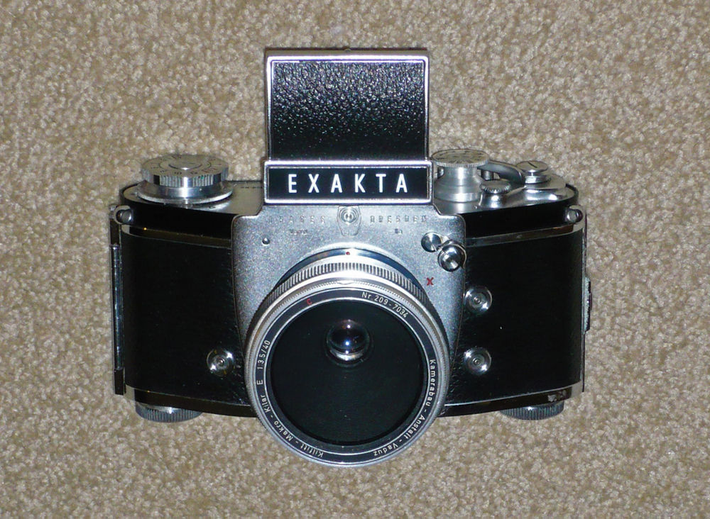 Ihagee Exakta single lens reflex camera